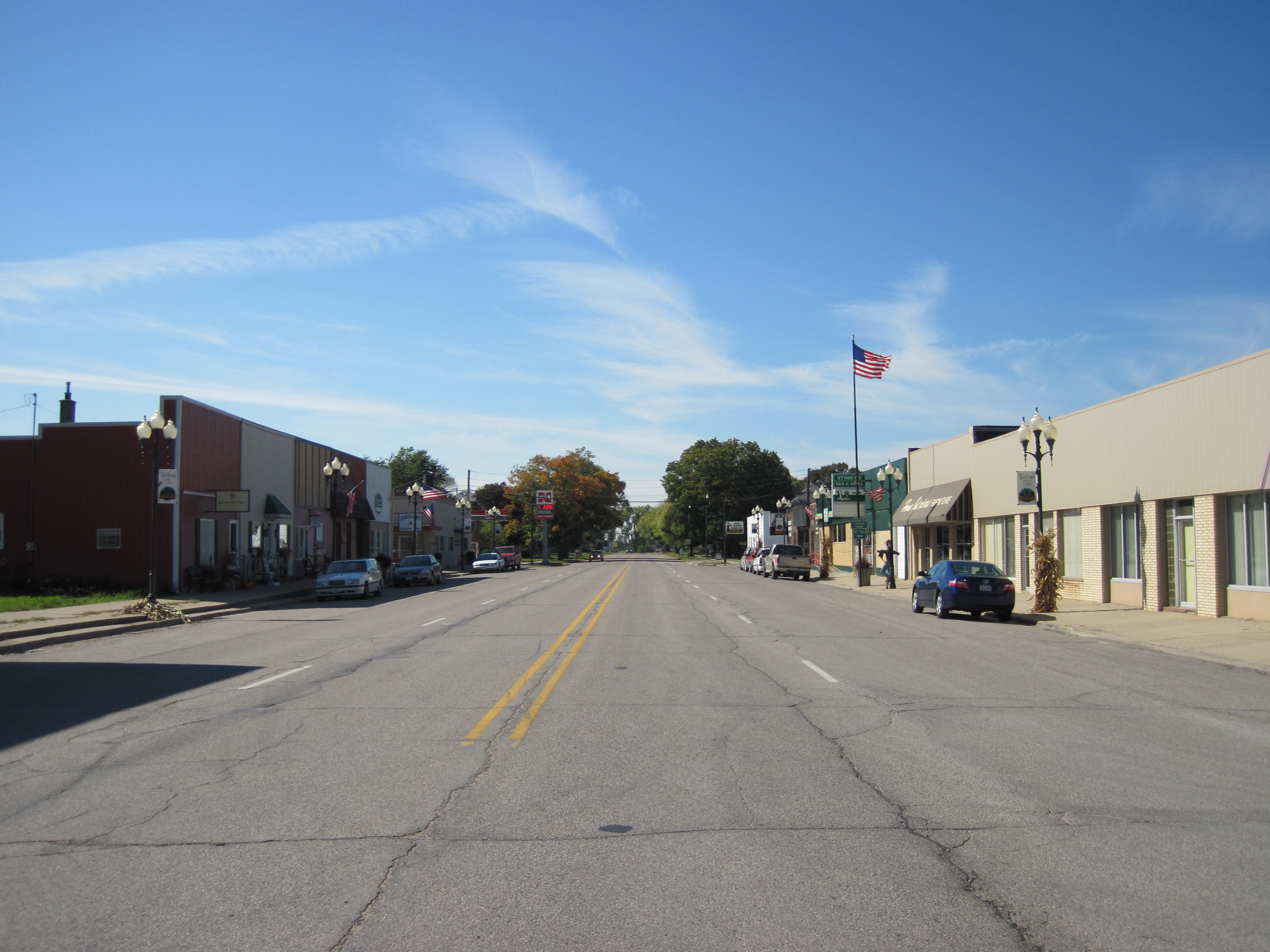 Aplington. Bill Whittaker| (talk|) 17:38, 1 October 2009 (UTC) Summary Aplington. Bill Whittaker (talk) 17:38, 1 October 2009 (UTC)